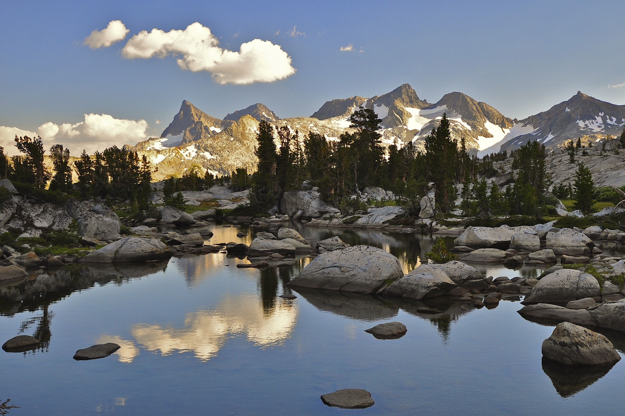 This was taken late in the afternoon after crossing Donahue Pass southbound into the Ansel Adams Wilderness on the John Muir Trail. This 5 mile stretch is the only section of the Muir Trail east of the Sierra Crest - everything here drains into Mono Lake